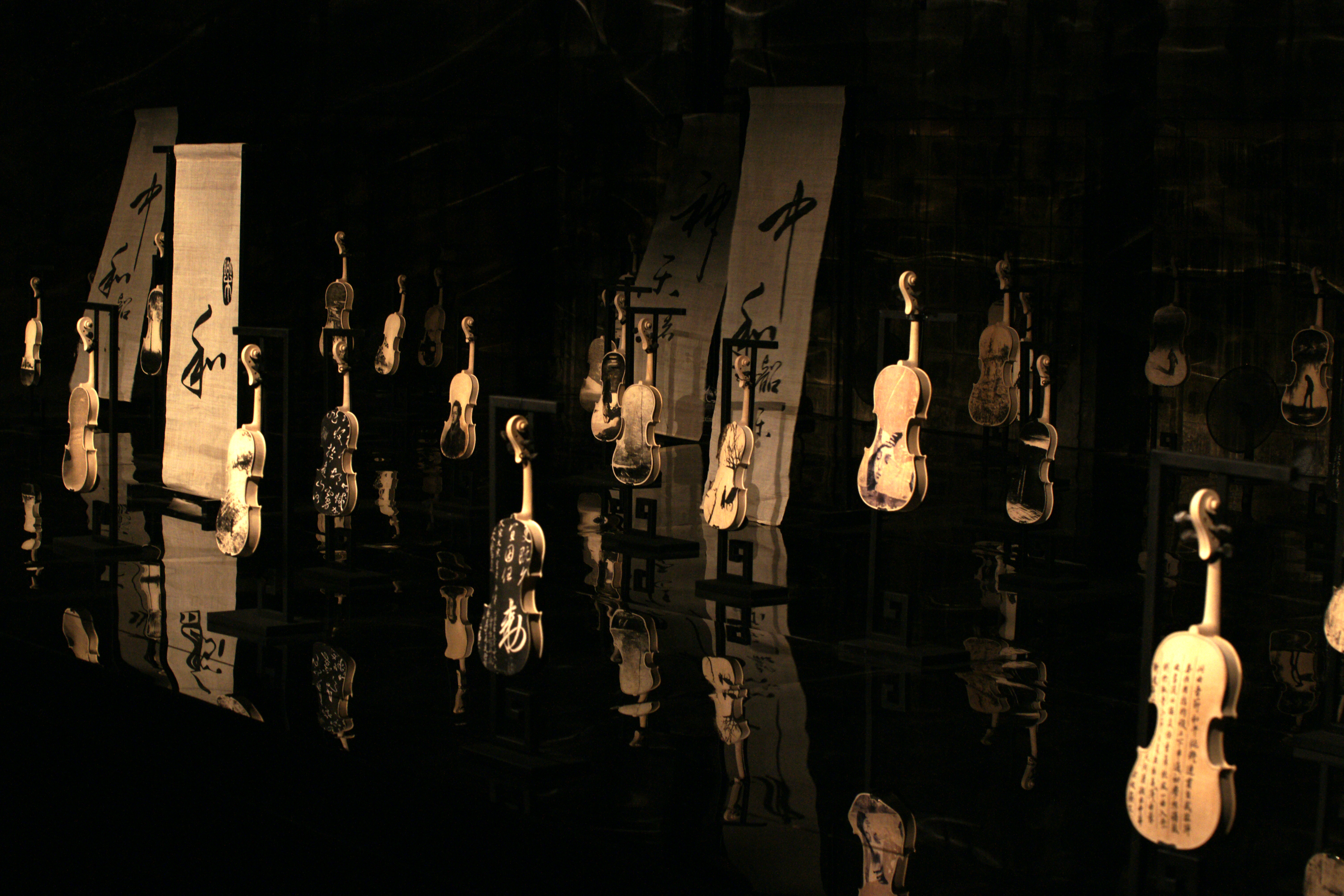 Installation Cantabile per archi -Base Sous Marine Bordeaux, 2014